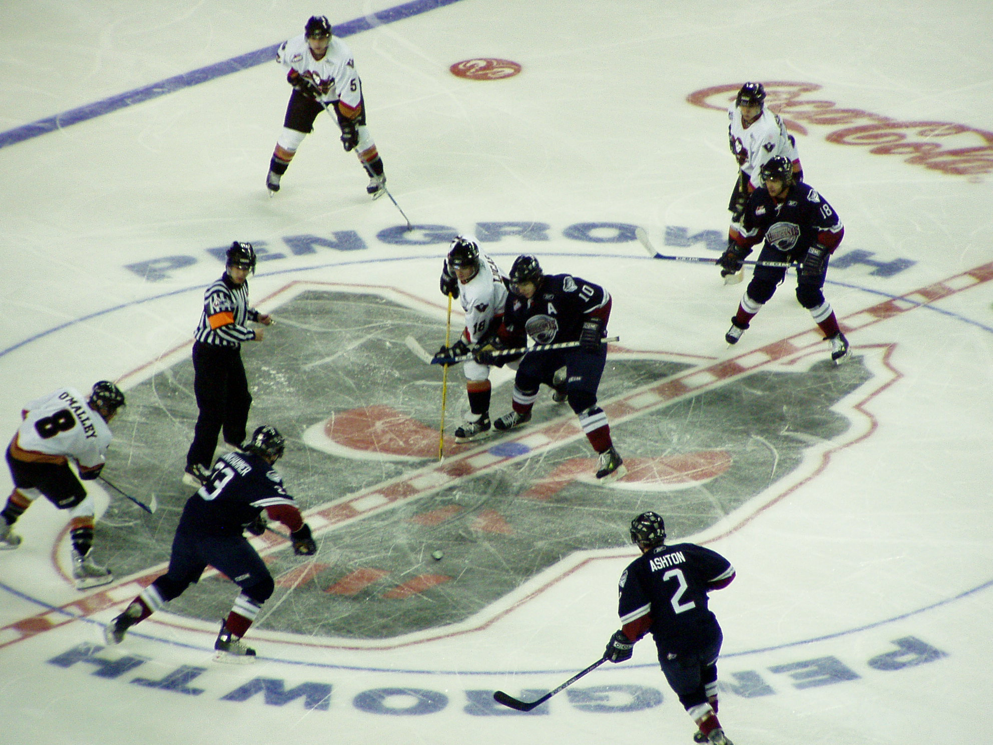 Faceoff of the Calgary Hitmen and Lethbridge Hurricanes at the Pengrowth Saddledome. Taken during game 3 of the first round of the playoffs, March 29, 2005.